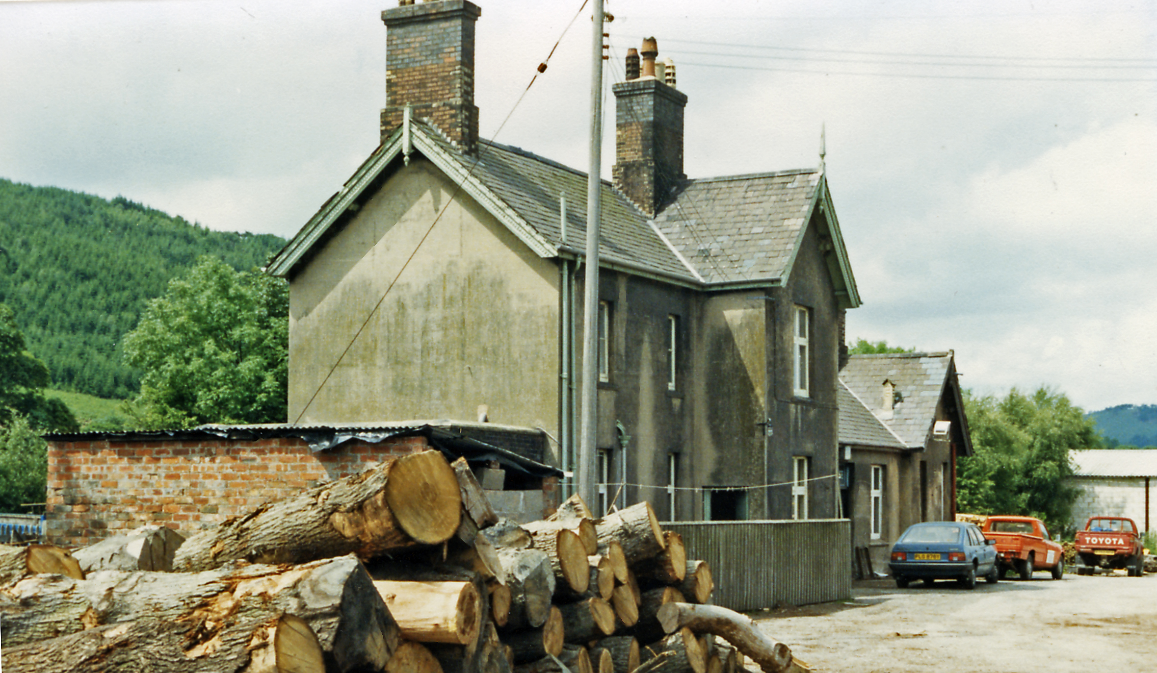 Former Caerwys station, 1986. View westward, towards Denbigh: ex-LNW Chester - Mold - Denbigh line, closed 30/4/62. It seems that the new owners may have been timber-merchants.